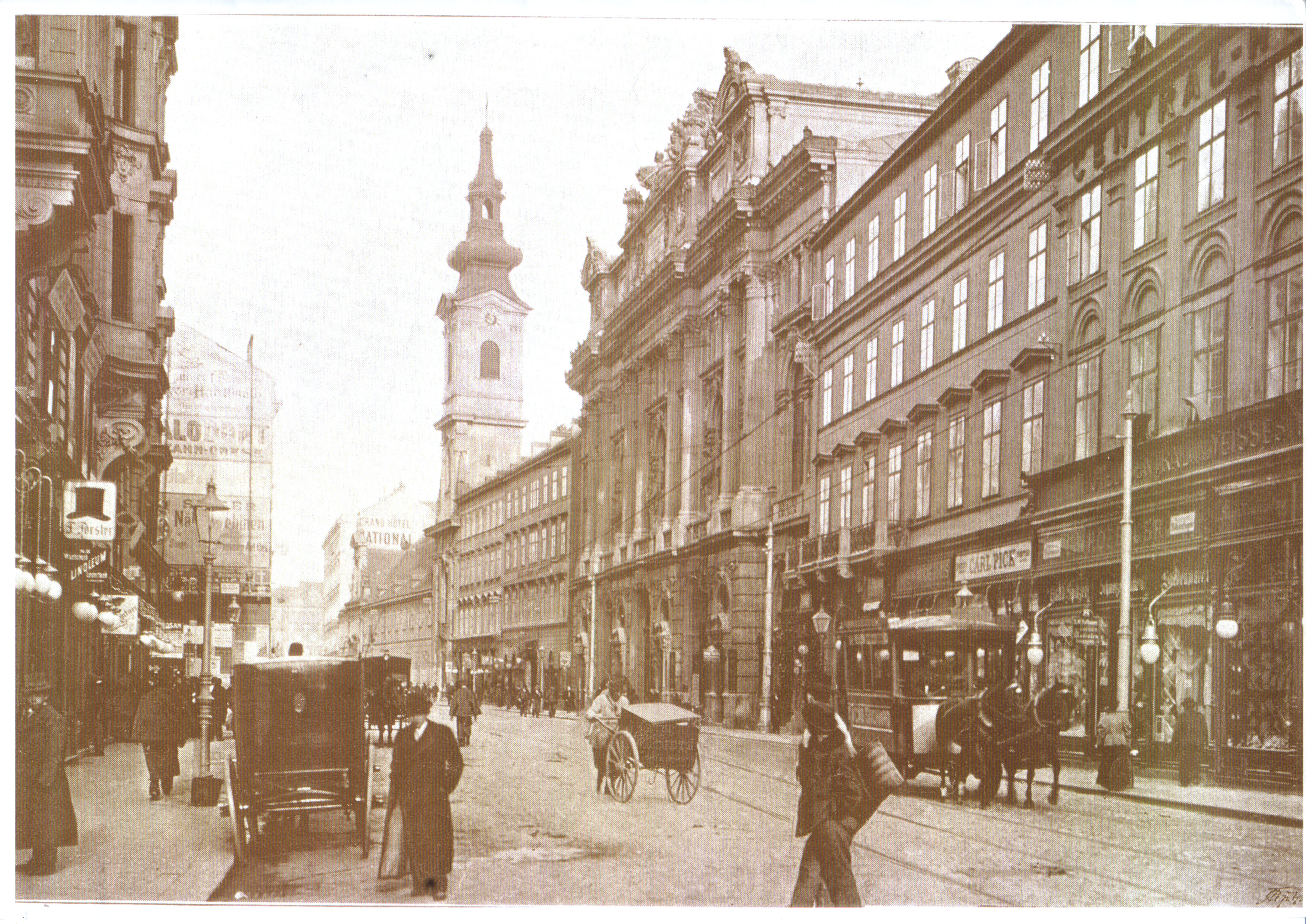 Ansicht Taborstraße 1890